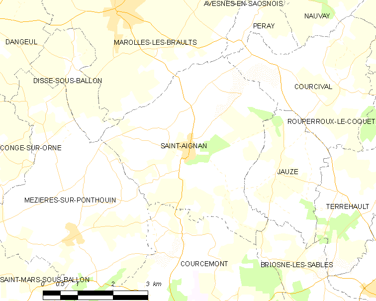 Map of French municipality